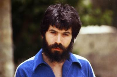 Photograph